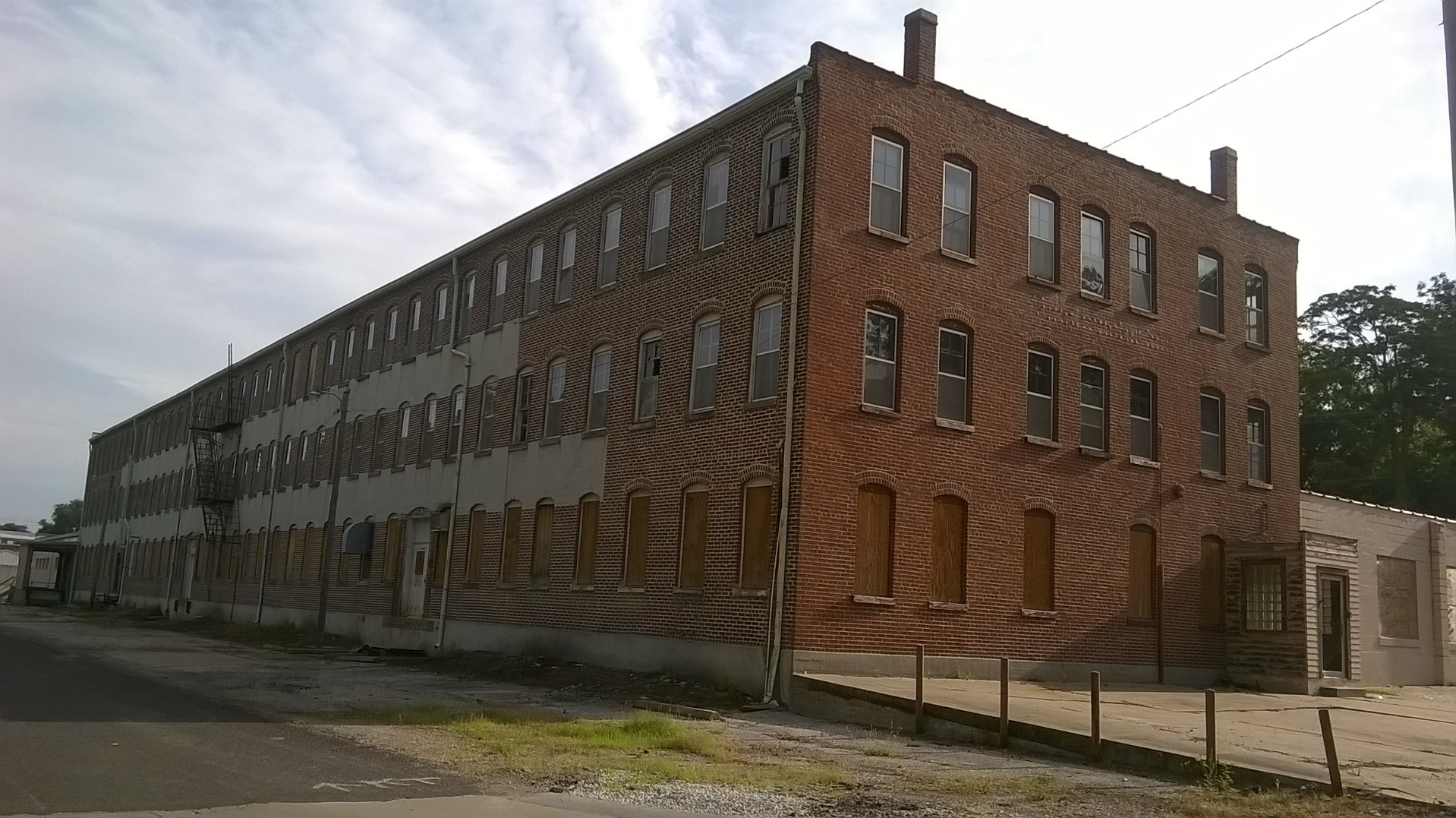 One of the two old Toastmaster manufacturing facilities in Boonville. This one is located on 2nd street, near the Isle of Capri Casino/Hotel.